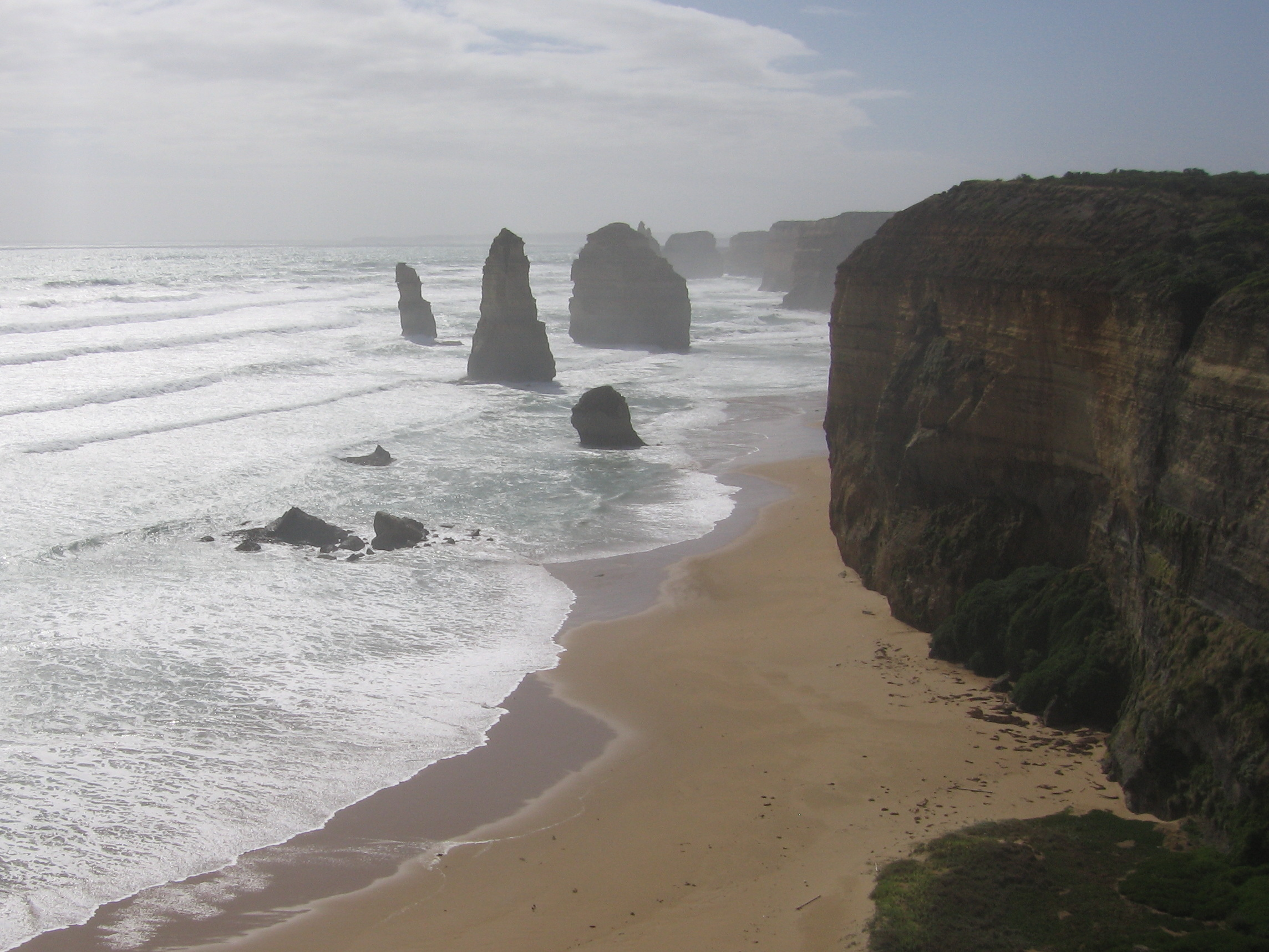 The Twelve Apostles in 2012, after the collapse. digital picture, cut to fit together with 12Apostles2002.